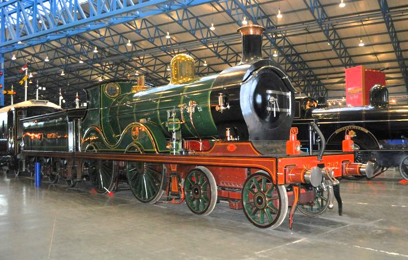 Class D 4-4-0 locomotive 737, near to York, Great Britain. Ex South Eastern and Chatham Railway (SECR) Class D 4-4-0 locomotive 737 (SR A737-1737, BR 31737 numbers) built at Ashford locomotive works in 1901 to a design by Wainright SECR design